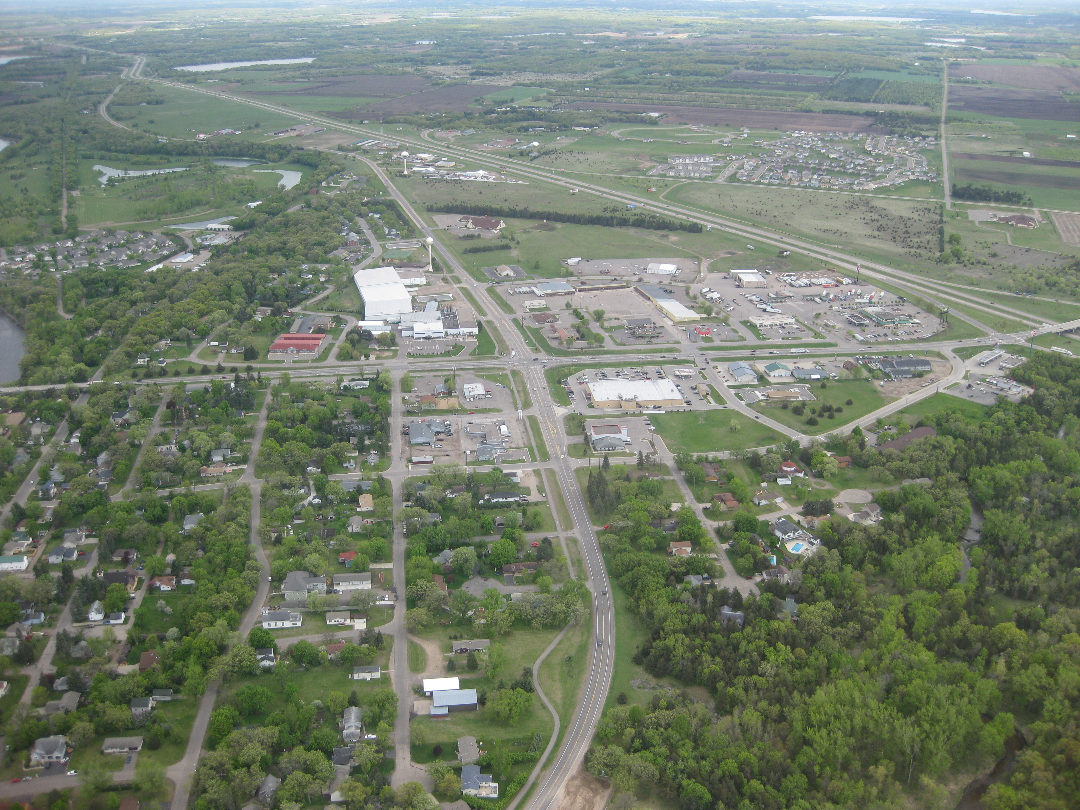 Clearwater, MN